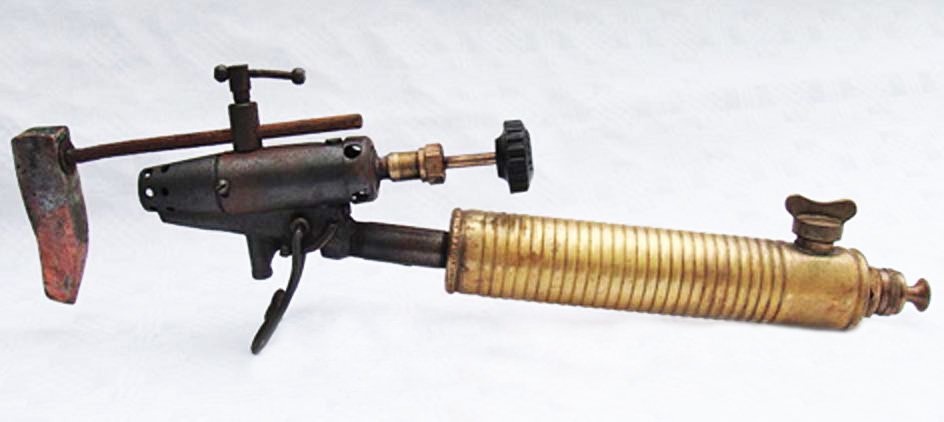 Gas powered soldering iron.